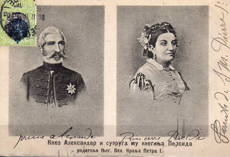 Princ Aleksandar and princess Persida Karadjordjevic